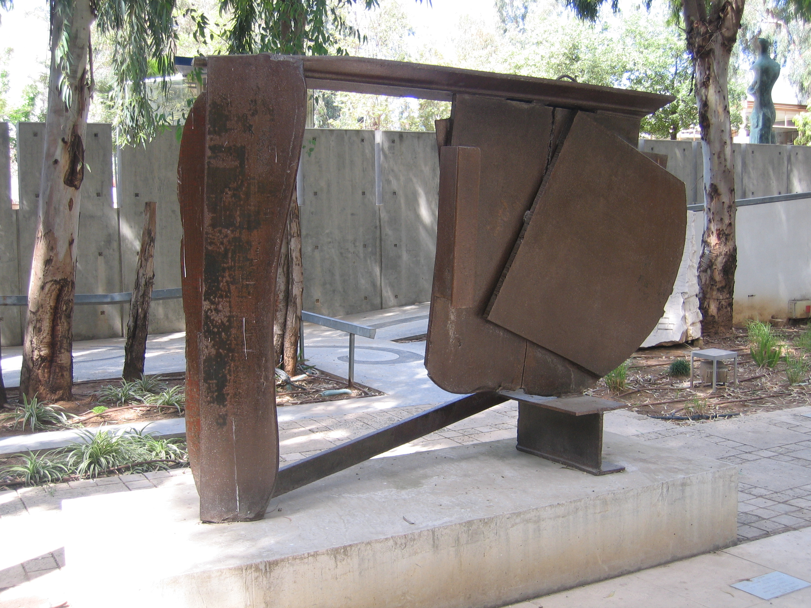 Anthony Caro (b. 1924), Black Cover Flat (1974), steel photo by talmoryair, 8.4.2007 at the tel aviv museum of art